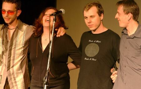 Slovak funk band Made 2 Mate in 1998.